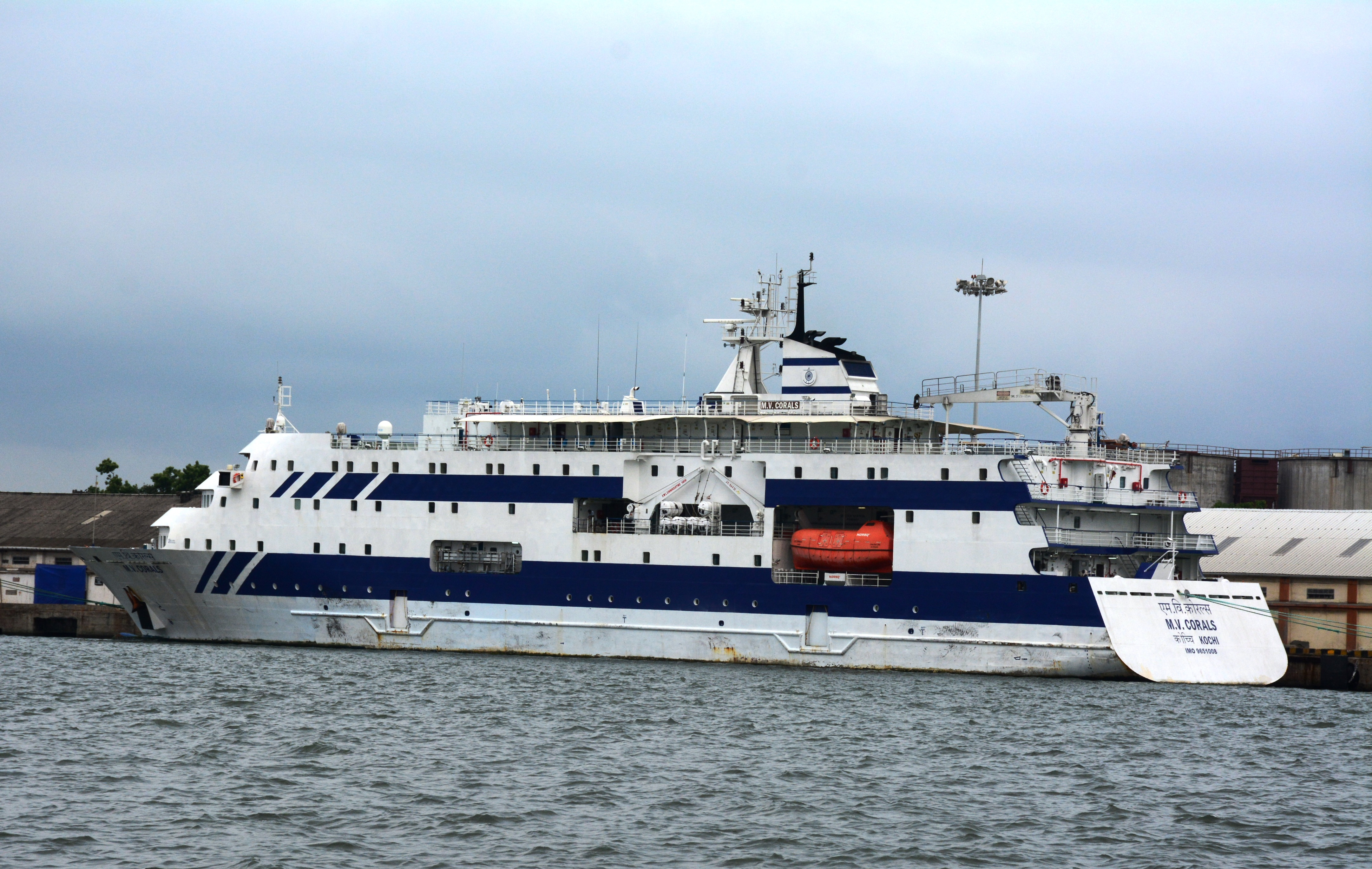 MV Corals is a cruise ship service between Cochin and Lakshadweep